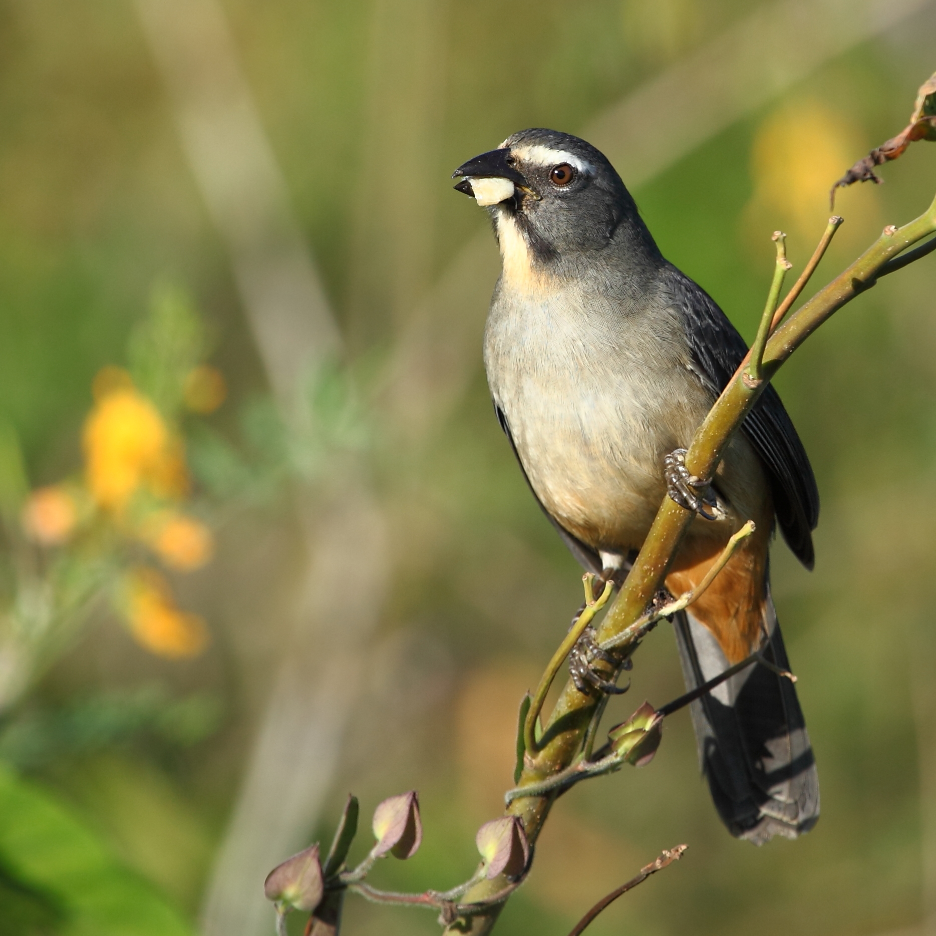 Greyish Saltator at Poconé - MT - Brazil